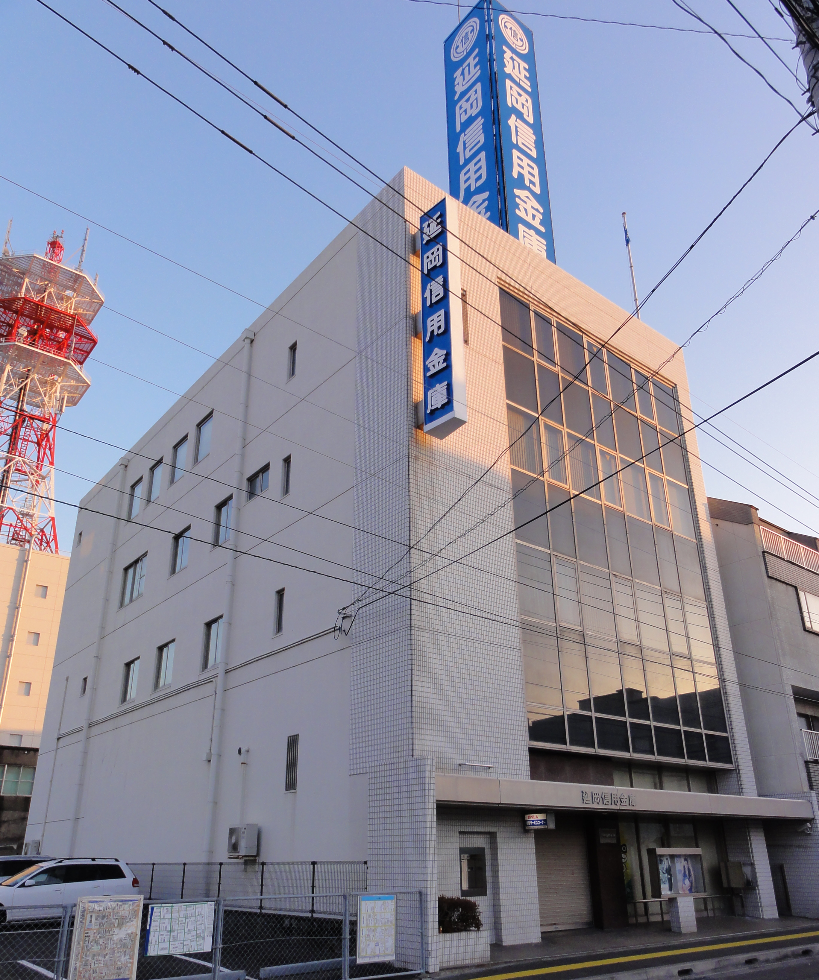 Nobeoka shinkin bank(Head office),Miyazaki prefecture, Japan